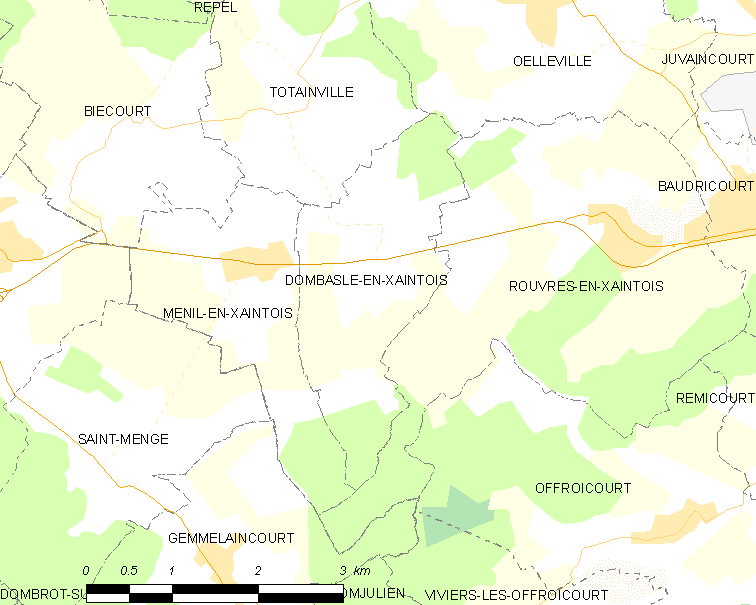 Map of French municipality Dombasle-en-Xaintois